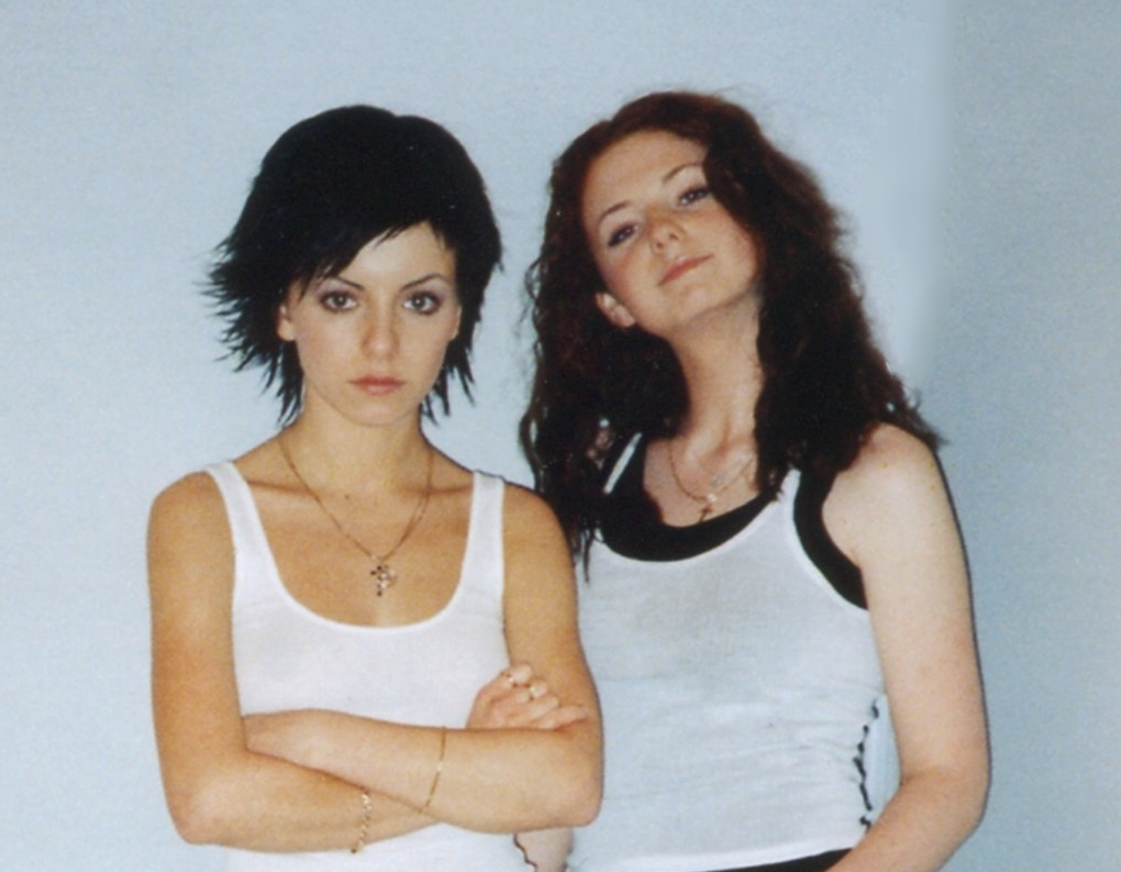 Julia Volkova & Lena Katina, the Russian pop group, t.A.T.u..